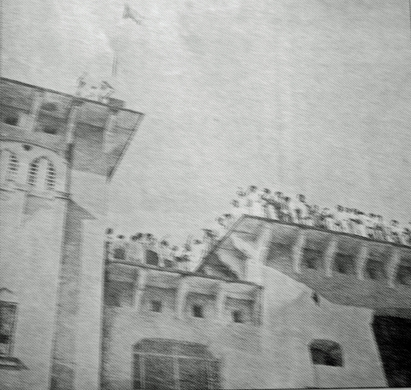 February 22, 1952 morning at when trying to fly a black flag on the top of Kola Vaban. The picture was taken from infornt of Modur Cantin. Dhaka, East Pakistan